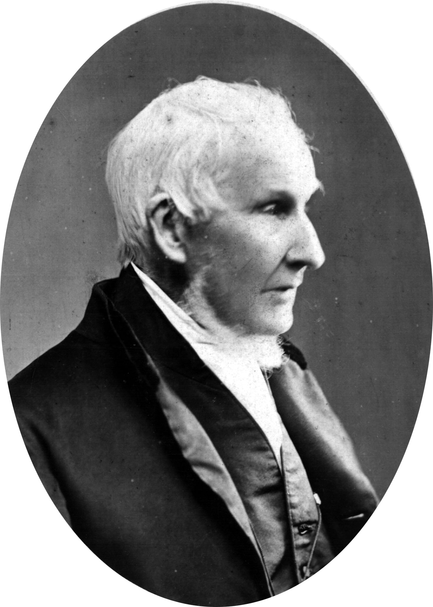 Photograph by Tunny of William Miller, Edinburgh engraver taken in 1862